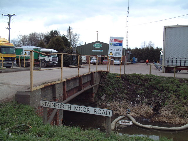 Hatfield Peat Works. The entrance to Scott's peat works on the north side of Hatfield Moors. In recent years the use of peat for horticultural purposes has become increasingly controversial.